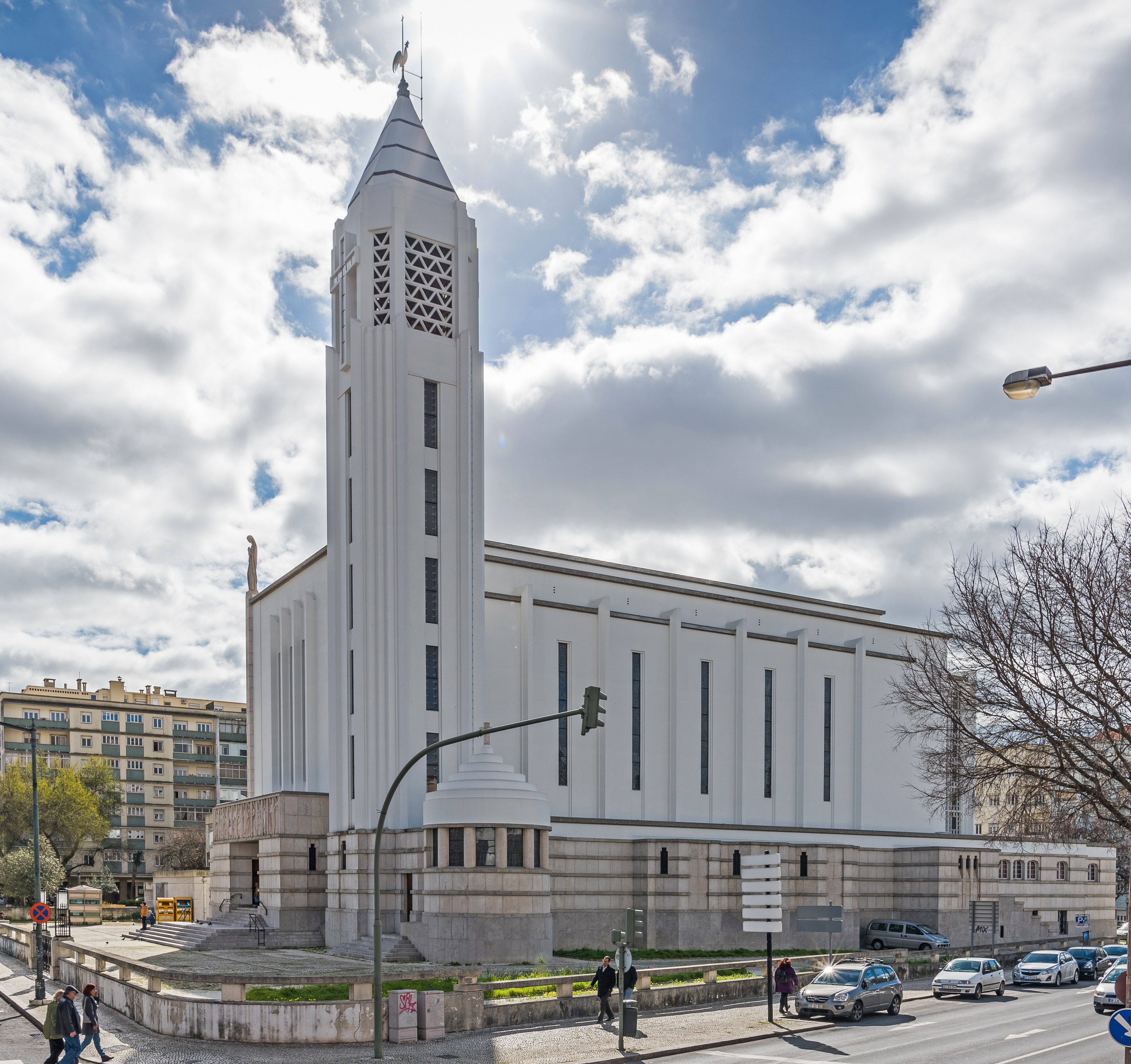 Lisbon Portugal February 2015